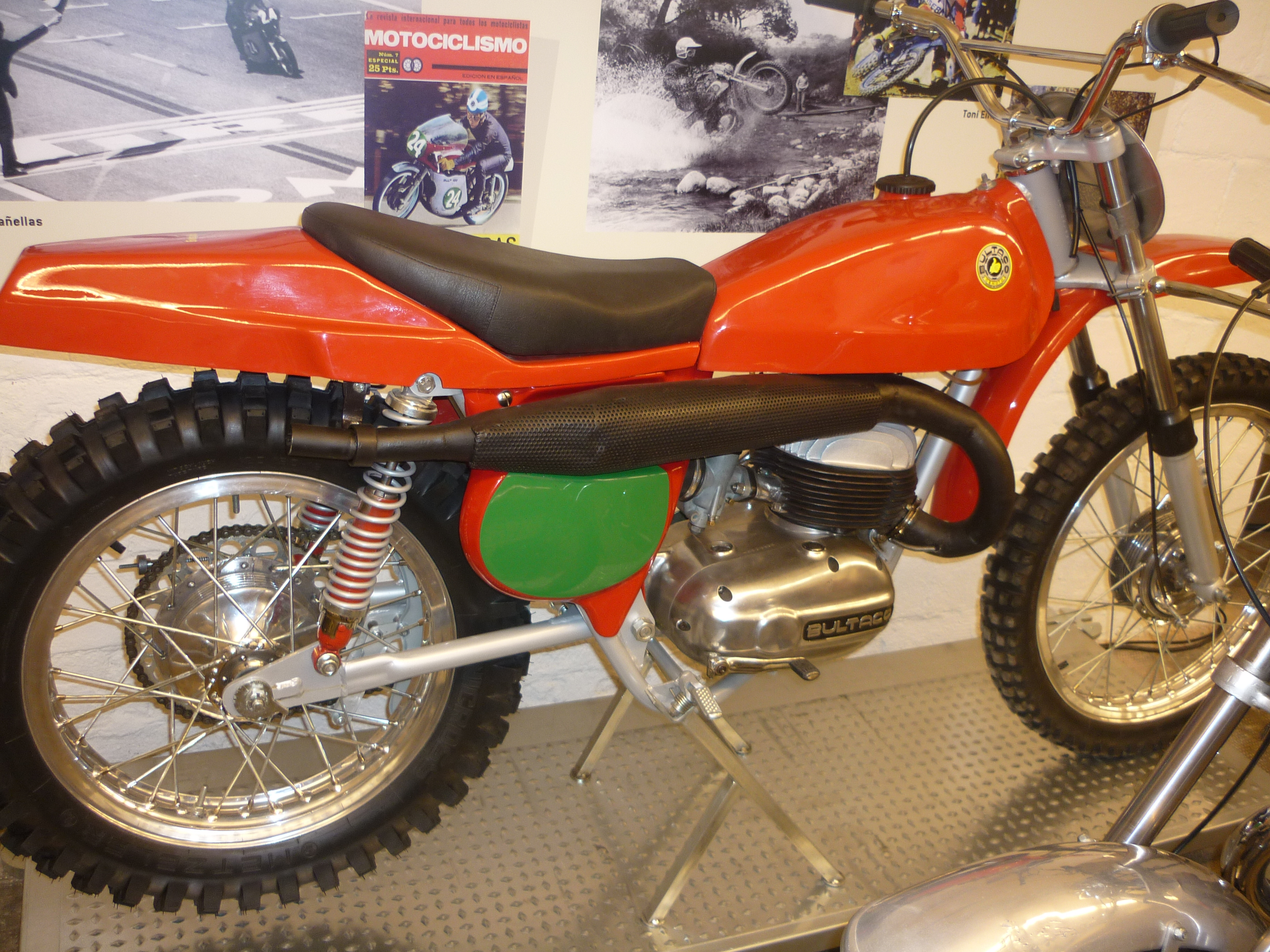 Bultaco Pursang MK2 250cc (1967). Museu de la Moto de Barcelona (Catalonia).